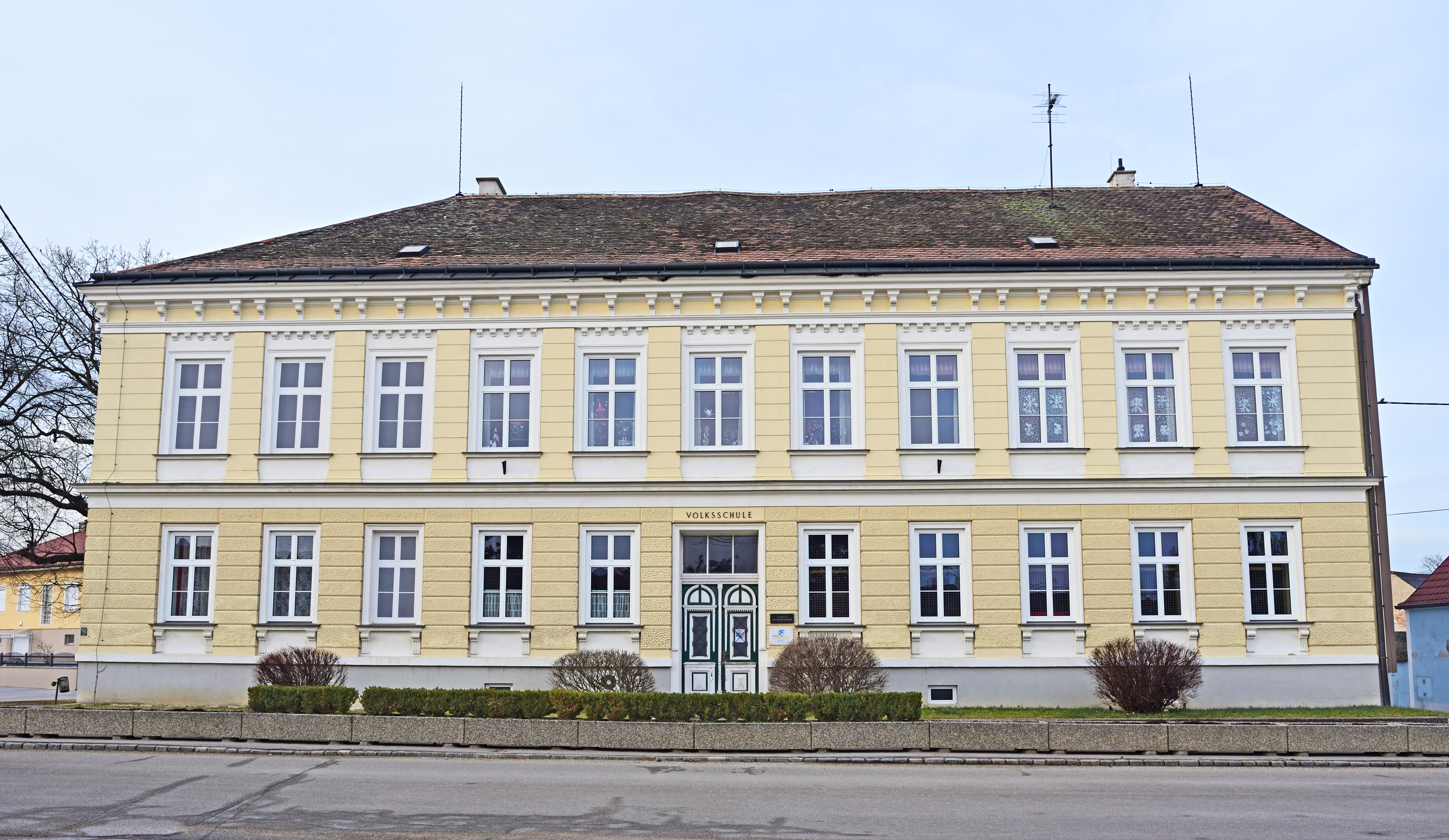 Elementary school at Seefeld-Kadolz, Lower Austria, Austria